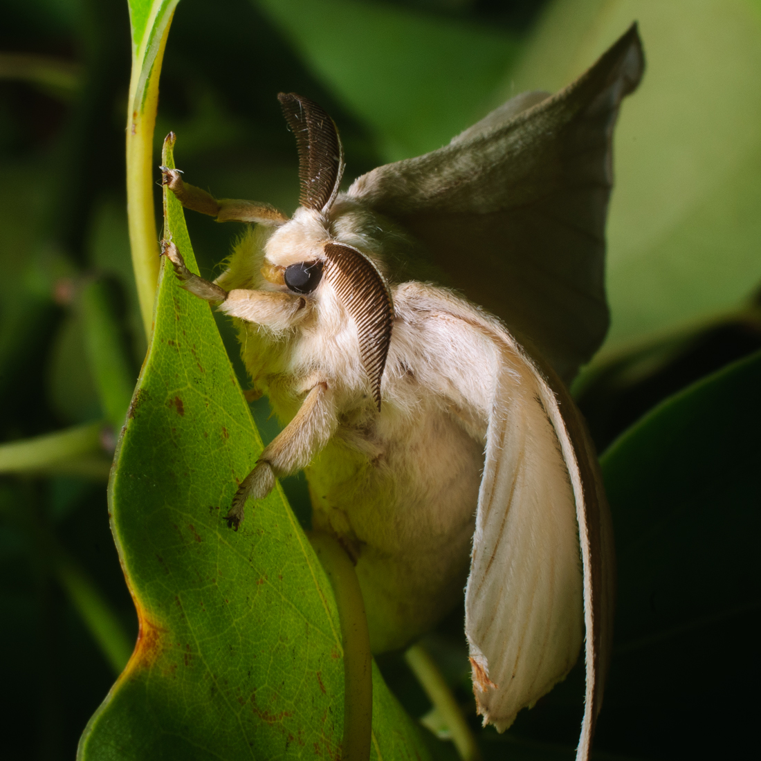 Silkmoth or Bombyx mori